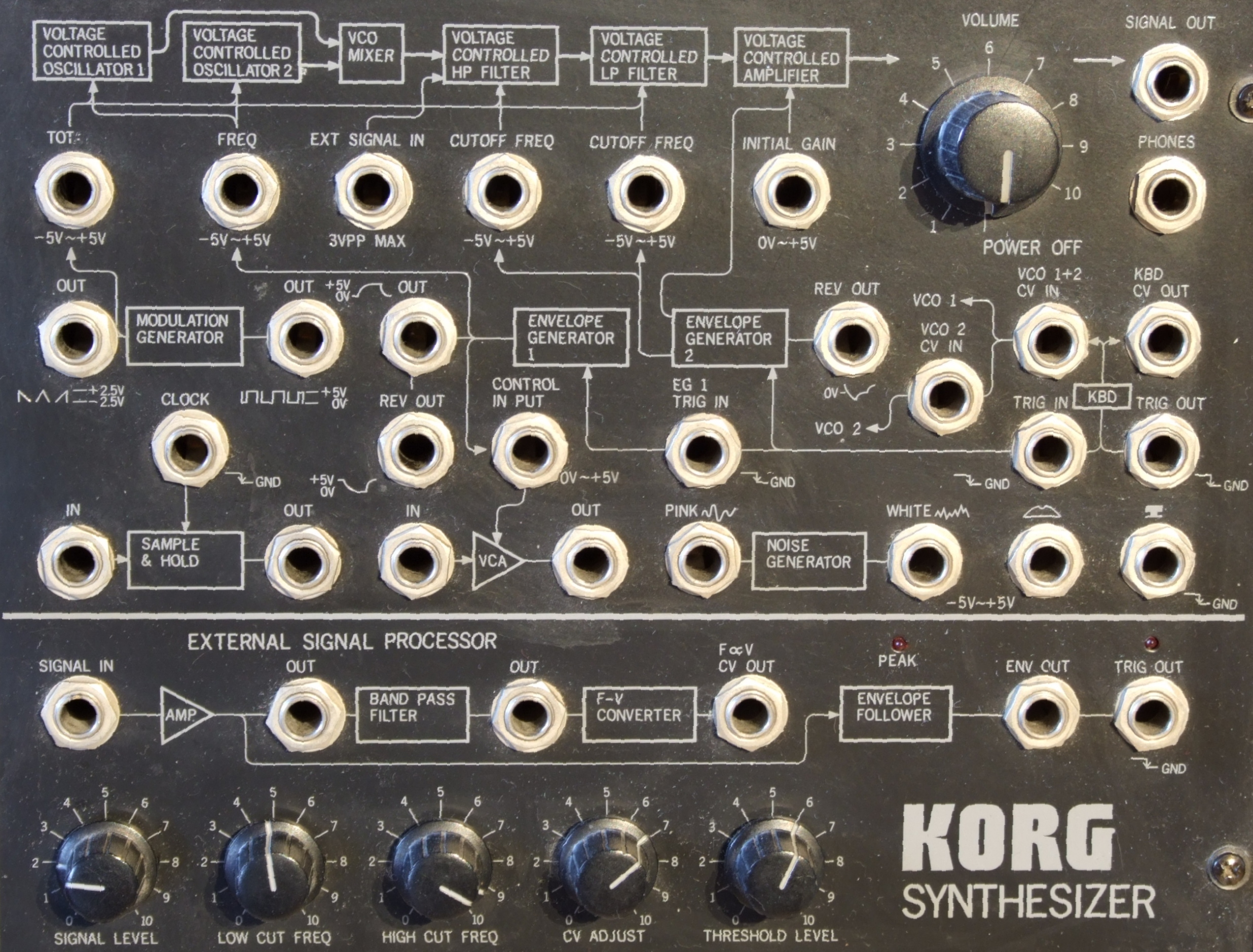 Korg MS-20 monophonic synthesizer, patch field